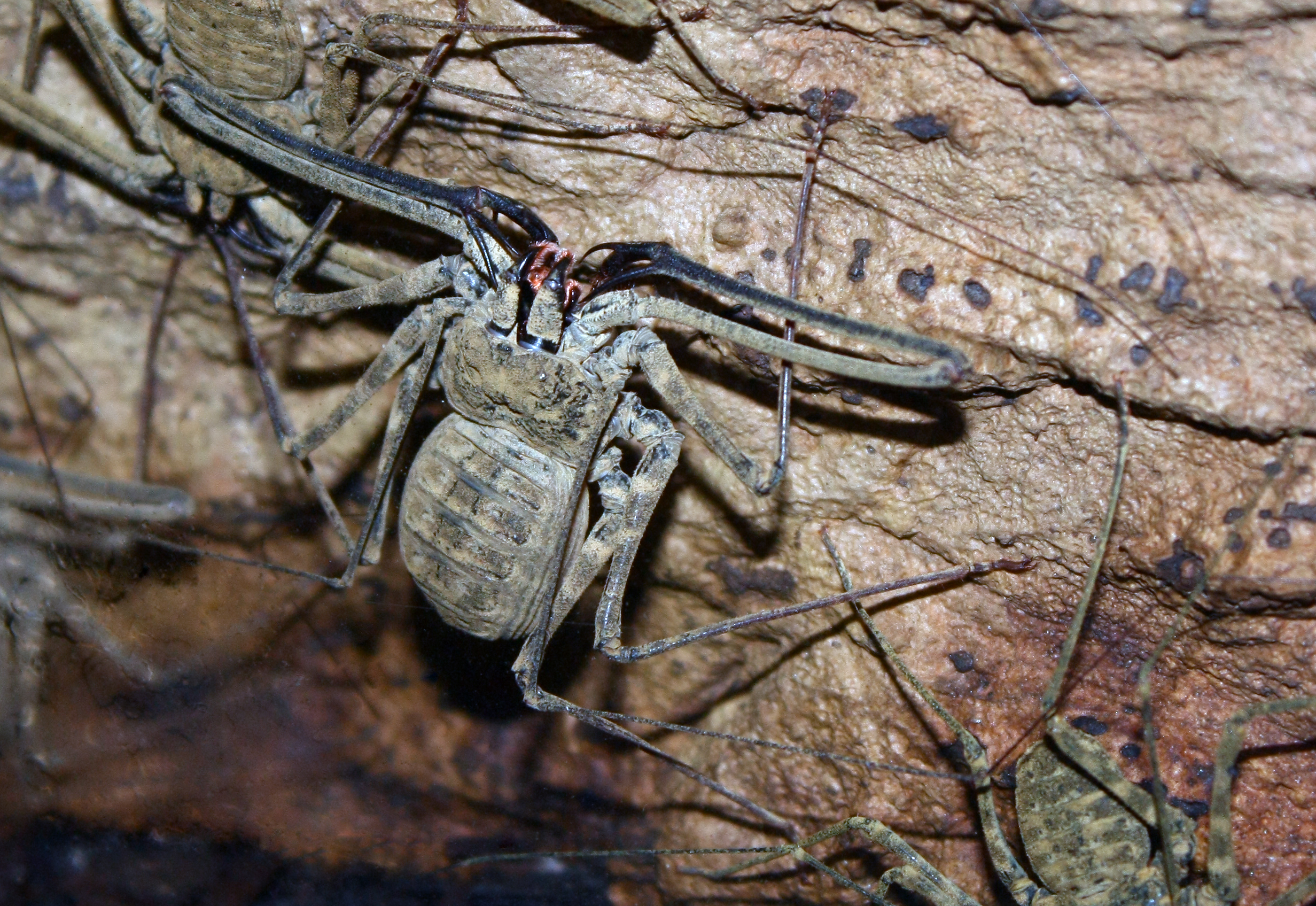 Amblypygi - photo taken at the Cincinnati Zoo and Biological Garden by Greg Hume